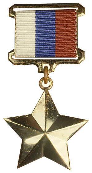 “Gold Star medal”. The Gold Star medal of the Hero of the Russian Federation is the highest special insignia. Established from 1939 to distinguish the title "Hero of the Soviet Union" from other Order of Lenin recipients. After the demise of the Soviet Union, this medal was re-instituted in 1992 as a distinctive badge to the title "Hero of Russia".